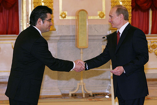 THE KREMLIN, MOSCOW. The President of Russia received the letter of credential of the Ambassador of the Republic of Ecuador, Patrizio Alberto Chavez Savala.